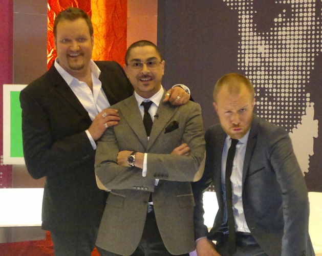 Finnish comedian Sami Hedberg, television personality Arman Alizad and comedian Joona Kortesmäki in the recording of television show Lauantaiprojekti.